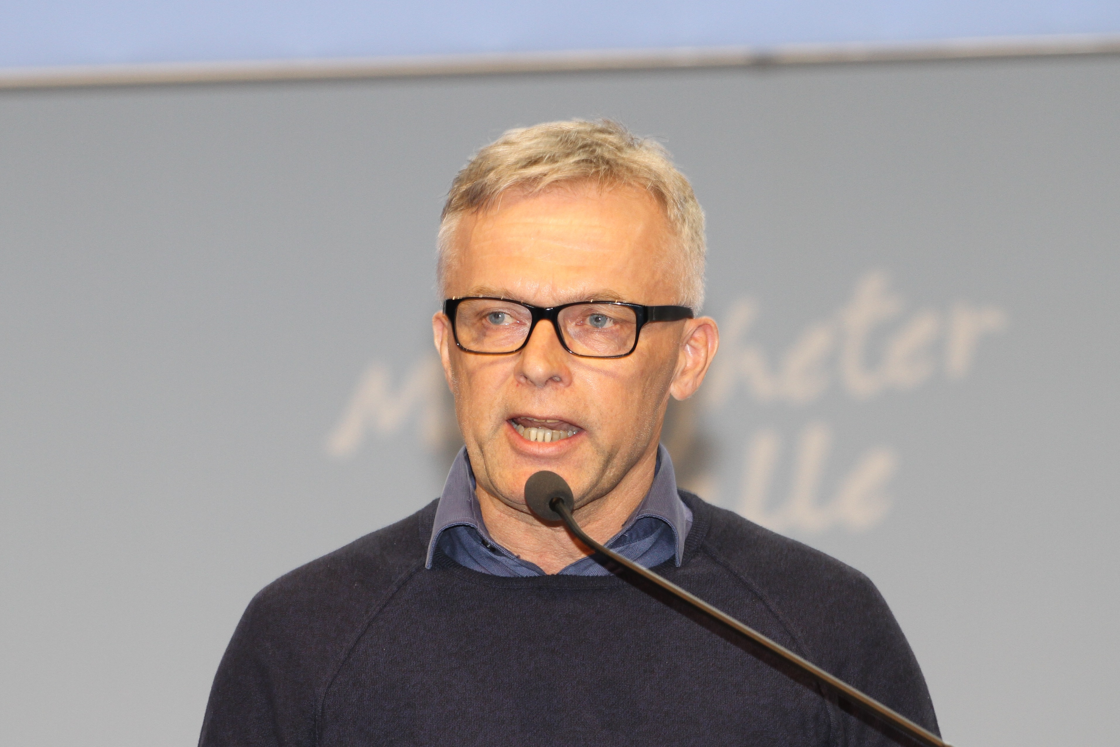 Charles Tøsse